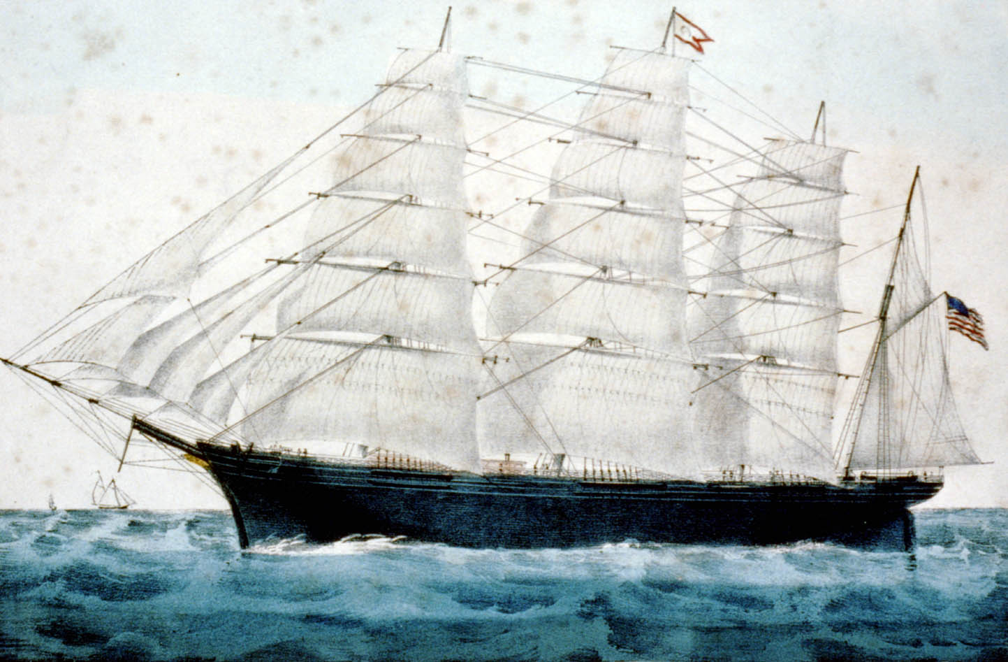 Wooden-hulled clipper ship (barque) Great Republic